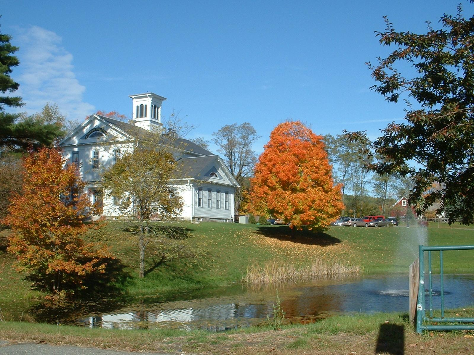 The former Powers Institute is now home to the Bernardston Historical Society, Bernardston, Massachusetts. Taken near intersection of Library Rd & Church St (Rte. 10), Bernardston, MA